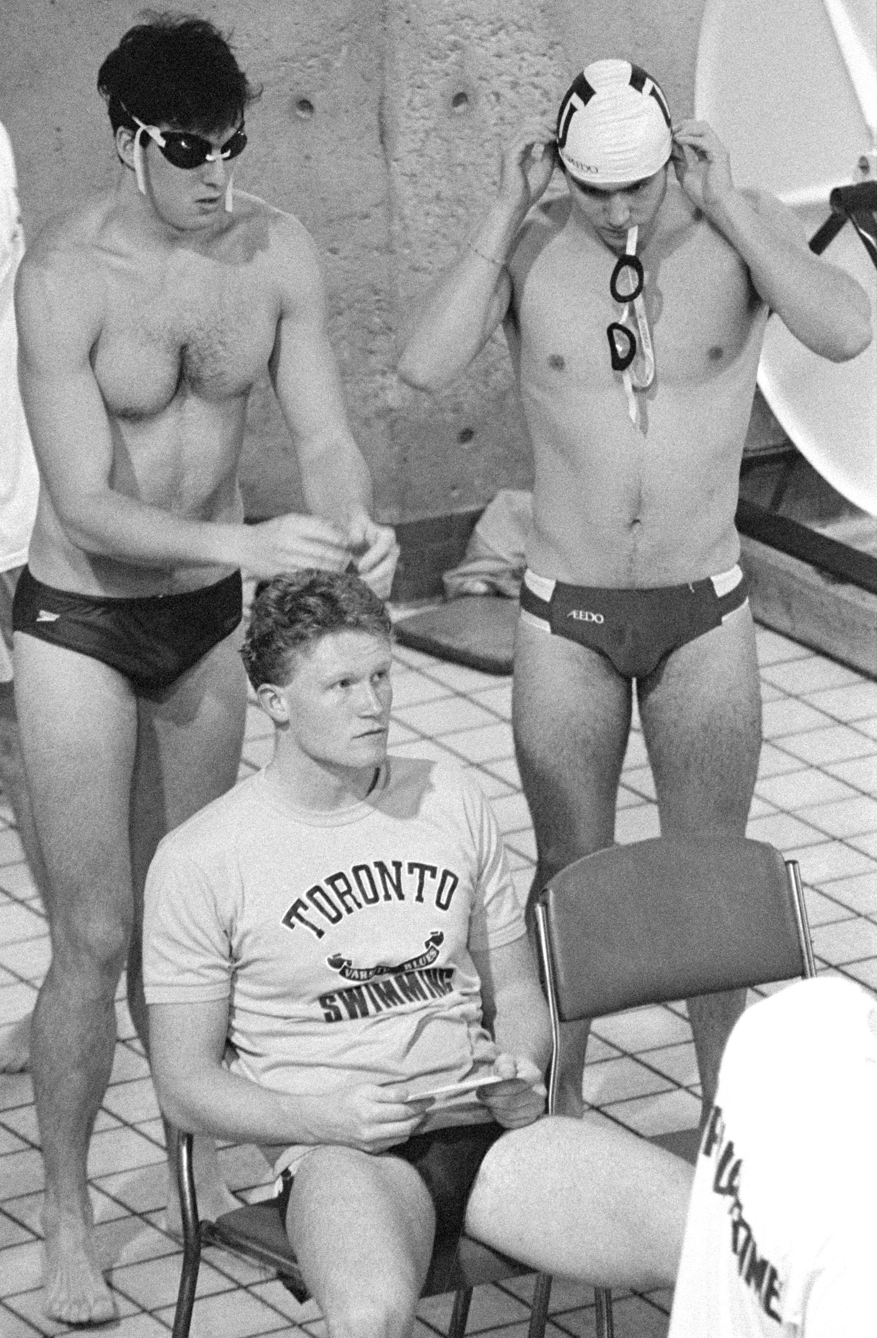 Taken at a swim meet at the University of Toronto circa 1987.